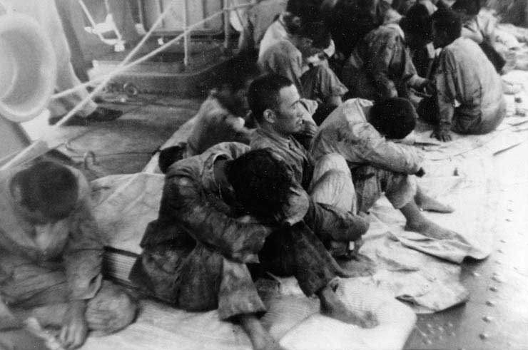 Japanese prisoners of war on board USS Ballard (AVD-10) after being rescued from a lifeboat two weeks after the Battle of Midway. They were members of the aircraft carrier Hiryu´s engineering force, left behind when she was abandoned on 5 June 1942, and had escaped in one of her boats just as she sank.